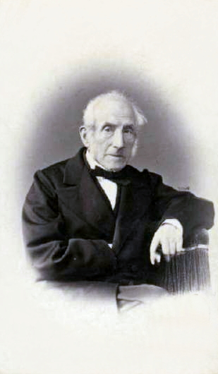 Giulio Rossi (1824-1884) - Alessandro Manzoni.